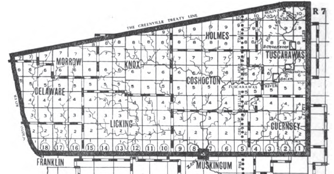 a district in Ohio set aside for veterans of the revolutionary war in the 18th century called the United States Military District